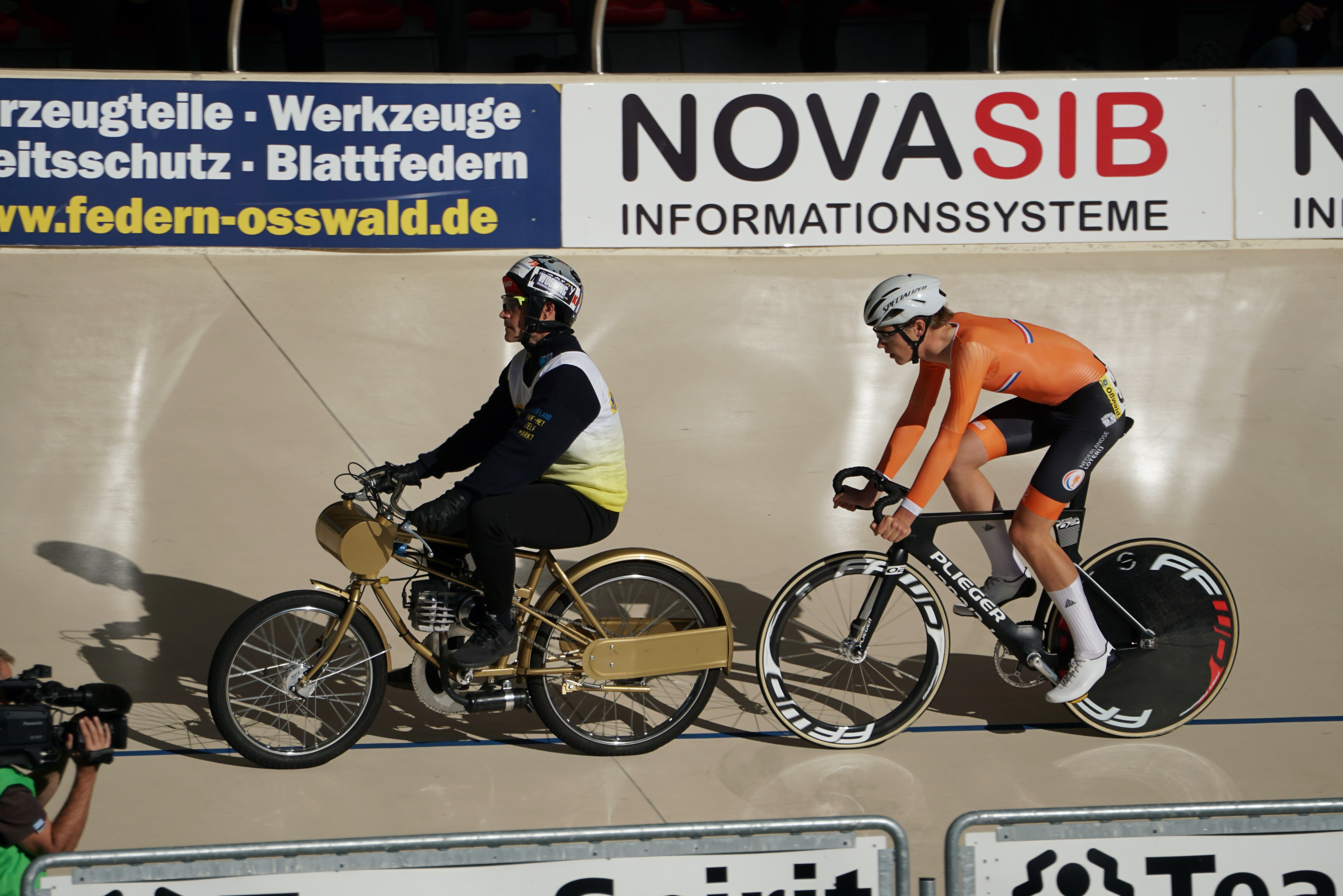 2018 UEC Track Stayer and Derny European Championships - Derny Final place 1 to 8 - Rider: Maikel Zijlaard (Netherlands), Pacer: Ron Zijlaard (Netherlands)